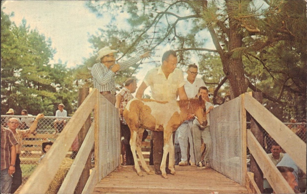 1971 or earlier auction for the Chincoteague ponies, Chincoteague VA